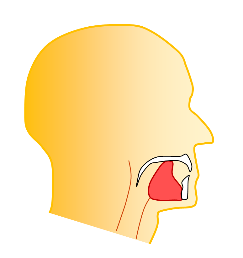 Da Qiao- (Building the bridge) is a qigong technicque of touching the palate with the tip of the tongue.